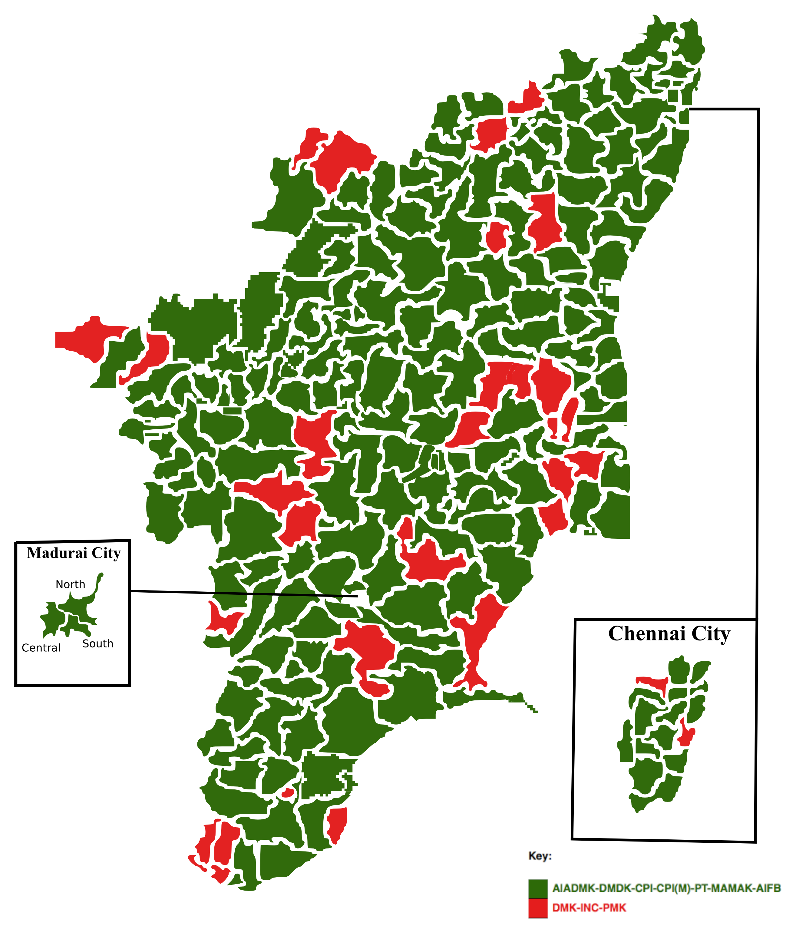 made election map using borders from ECI website using Inkscape. Results based on ECI website